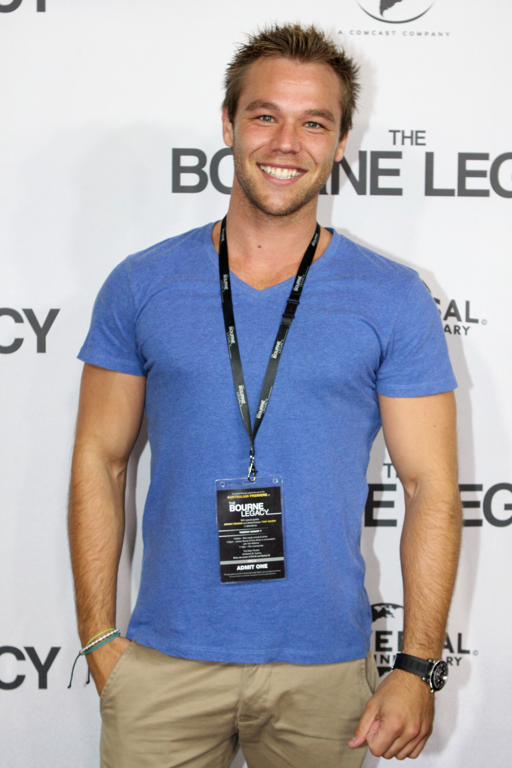 Actor Lincoln Lewis at the The Bourne Legacy premiere at State Theatre, Sydney, Australia